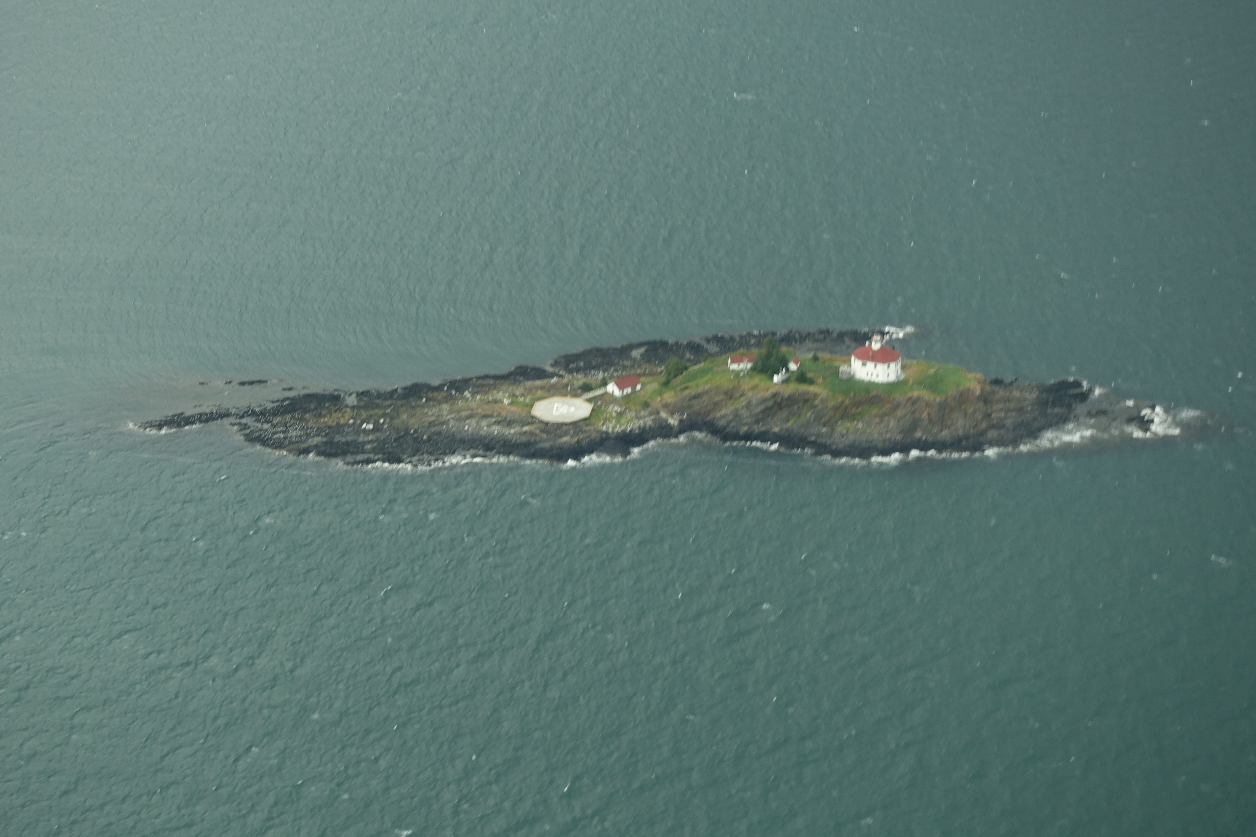 Eldred Rock, photo taken while in flight